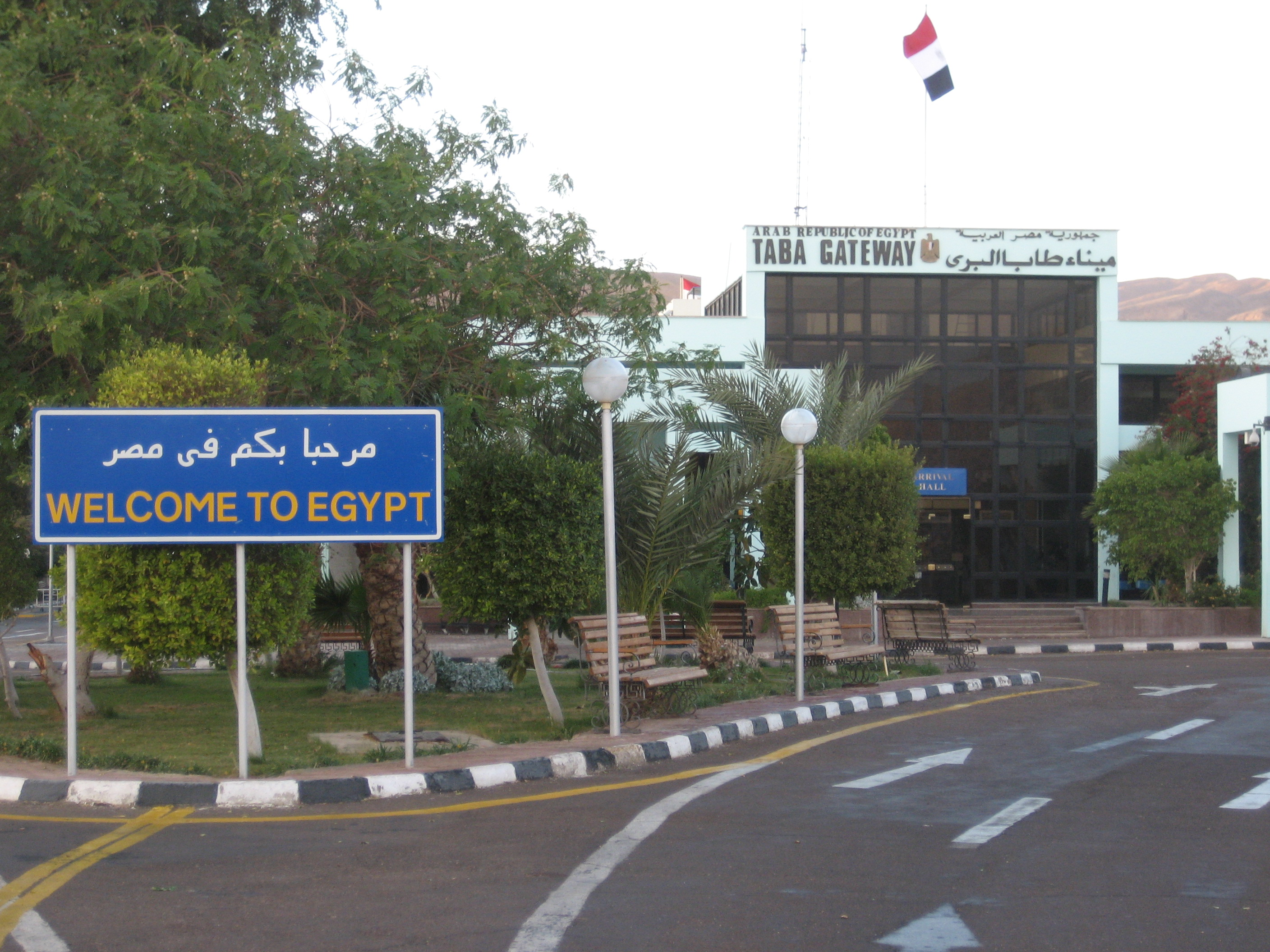 The entrance to the Egyptian Taba Border Terminal.